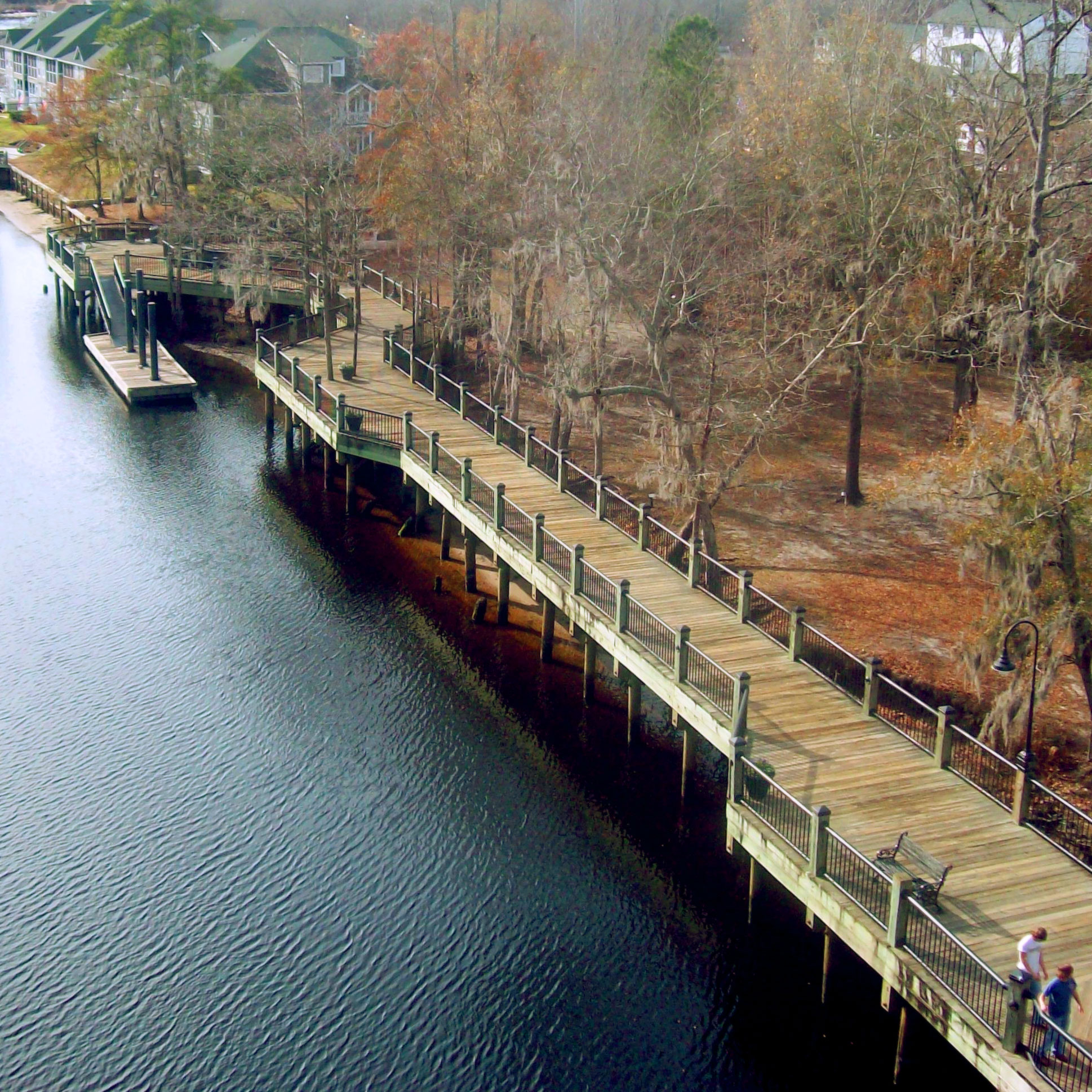 Photo of the marina in Conway, SC, USA, taken from the Conway bridge